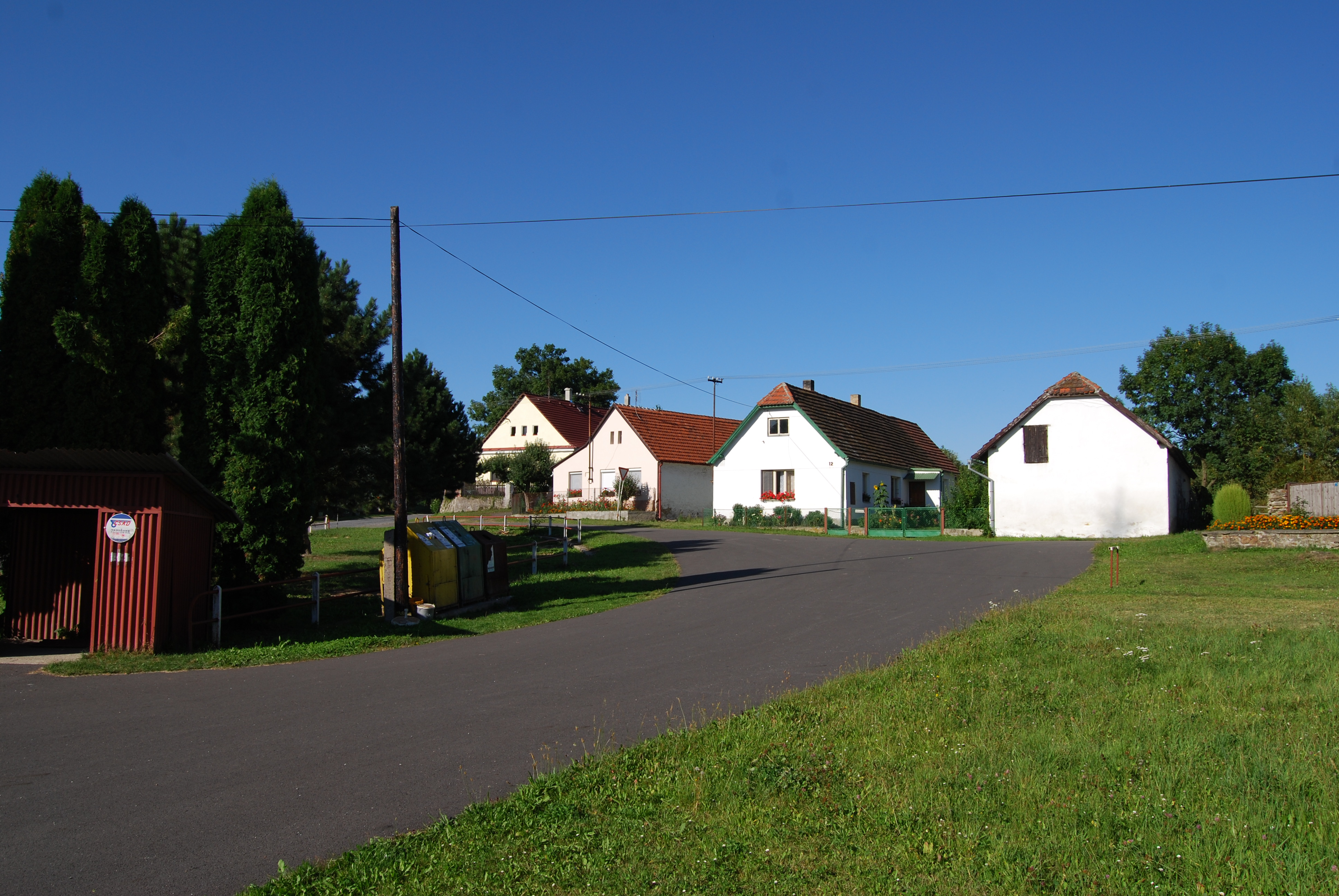 Jetětice village in Pisek District, Czech Republic.